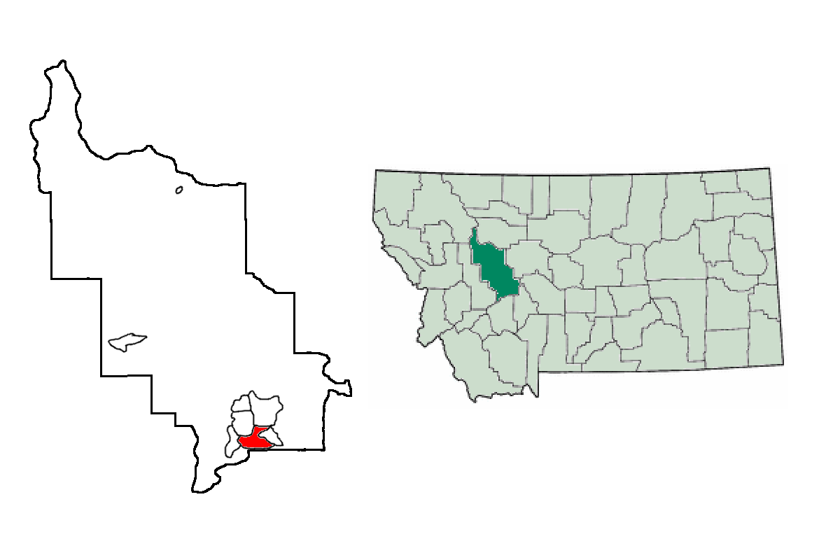 Locator map of Helena — in Lewis and Clark County, Montana. Credits Made using US Census Bureau data and MT county maps by Seth Illys.